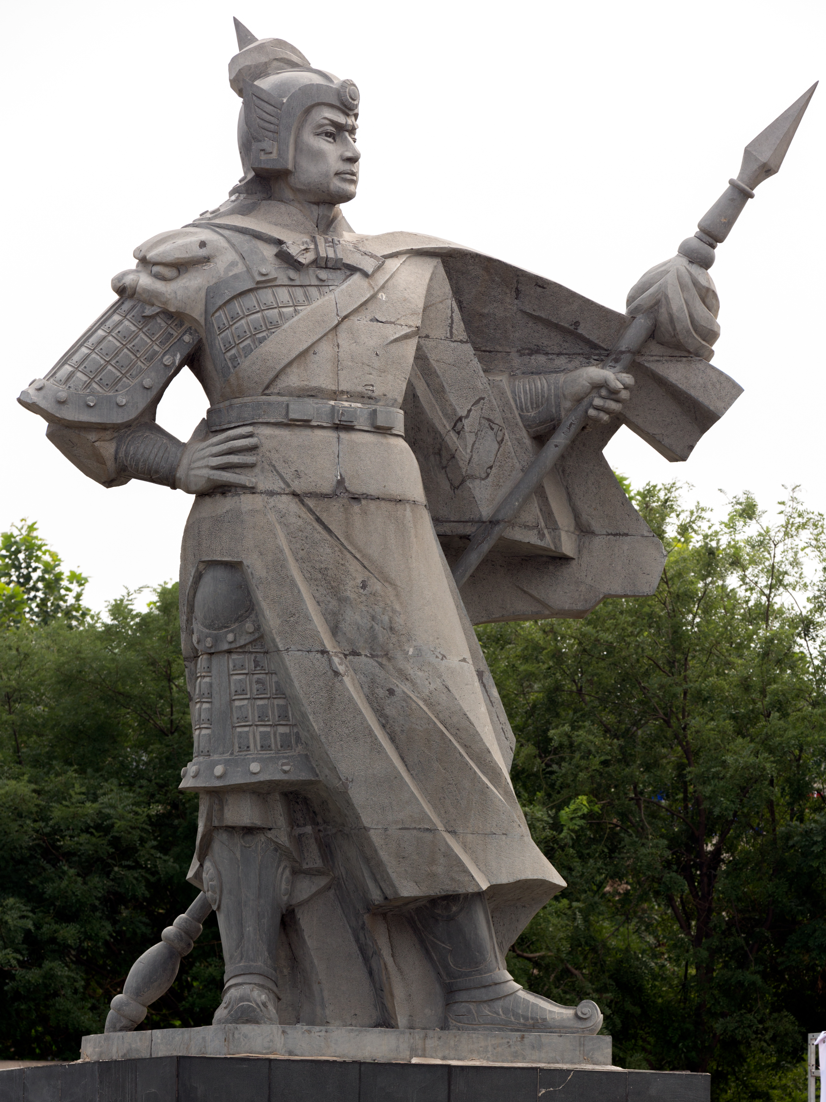 Statue of Zhao Yun in the Zilong Square